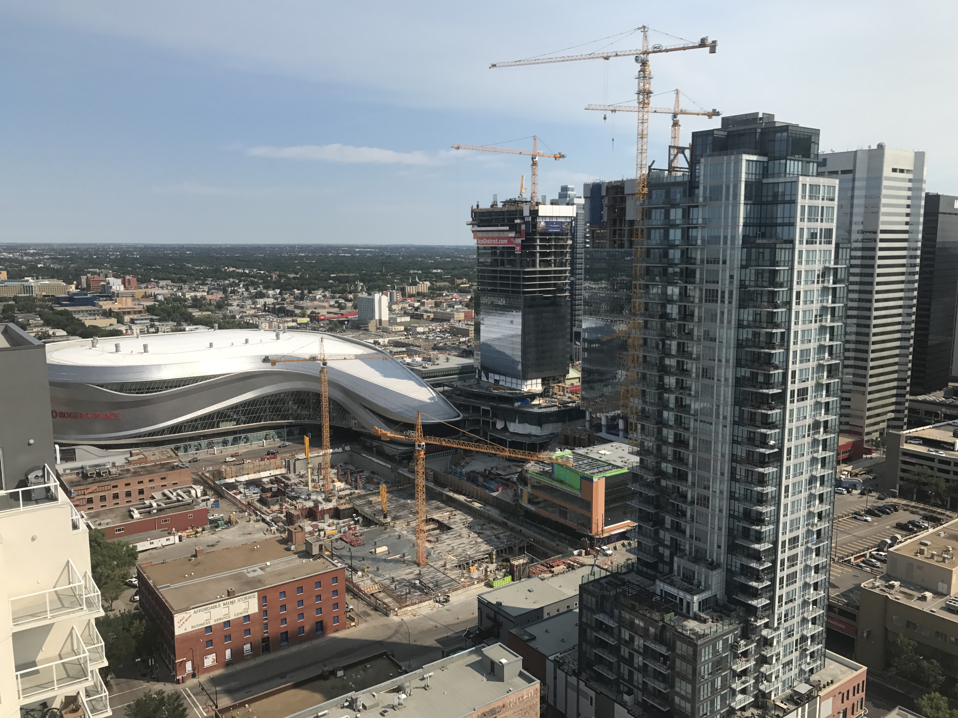 LOOKING NORTH EAST TO ICE DISTRICT CONSTRUCTION AND ROGERS PLACE